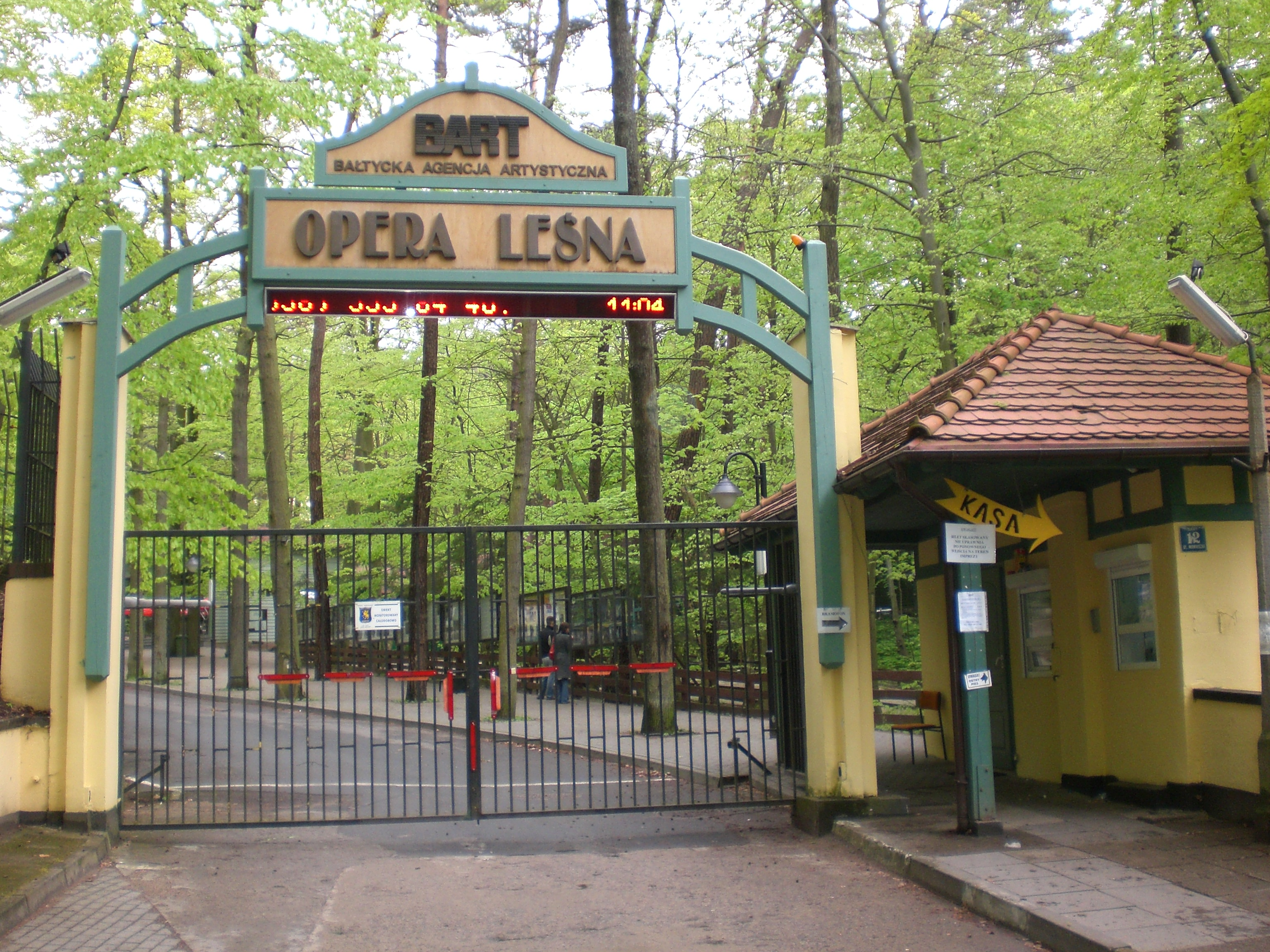 Forest Opera in Sopot, Poland (2007)